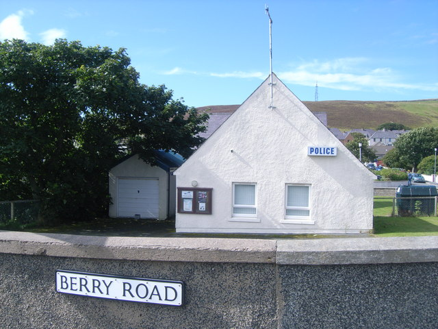 Scalloway Police Station, Berry Road